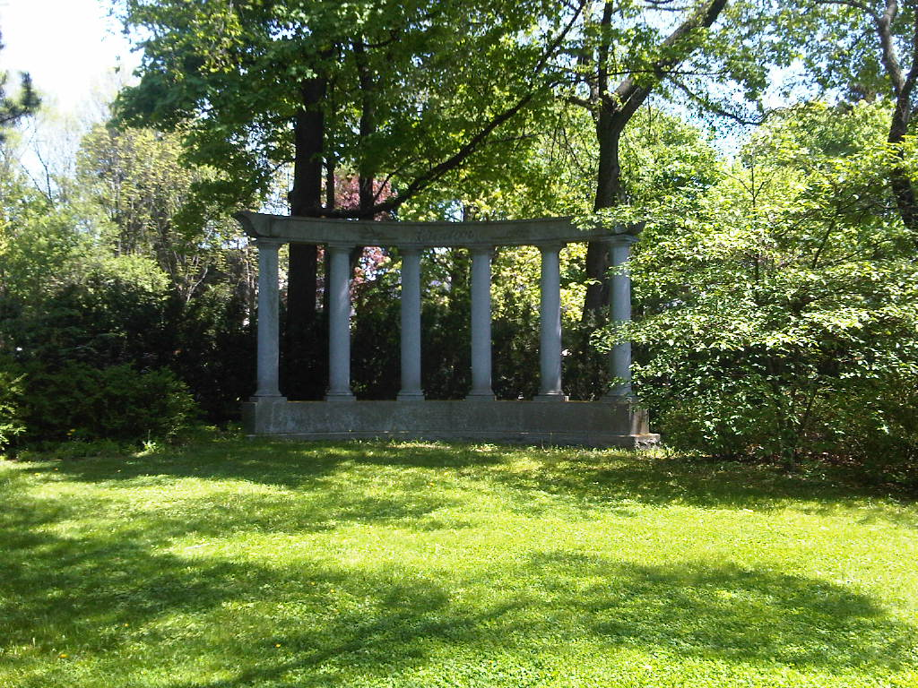 The Weston family's monument at Mount Pleasant Cemetery, Toronto Gravesite of W. Garfield Weston (February 26, 1898 – October 22, 1978) and his wife, Reta Lila Howard (July 4, 1897 – March 17, 1967)